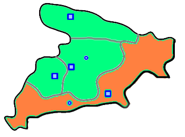 Karaj county of the Tehran Province in Iran. Taken from: and edited by Mani Parsa.